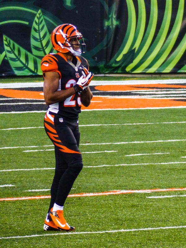 Warming up before Monday Night Football game vs the Pittsburgh Steelers, September 17, 2013